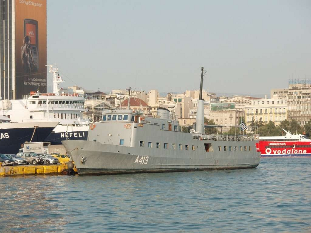 APS HS Pandora, A-419, SZDY, in Piraeus Harbour